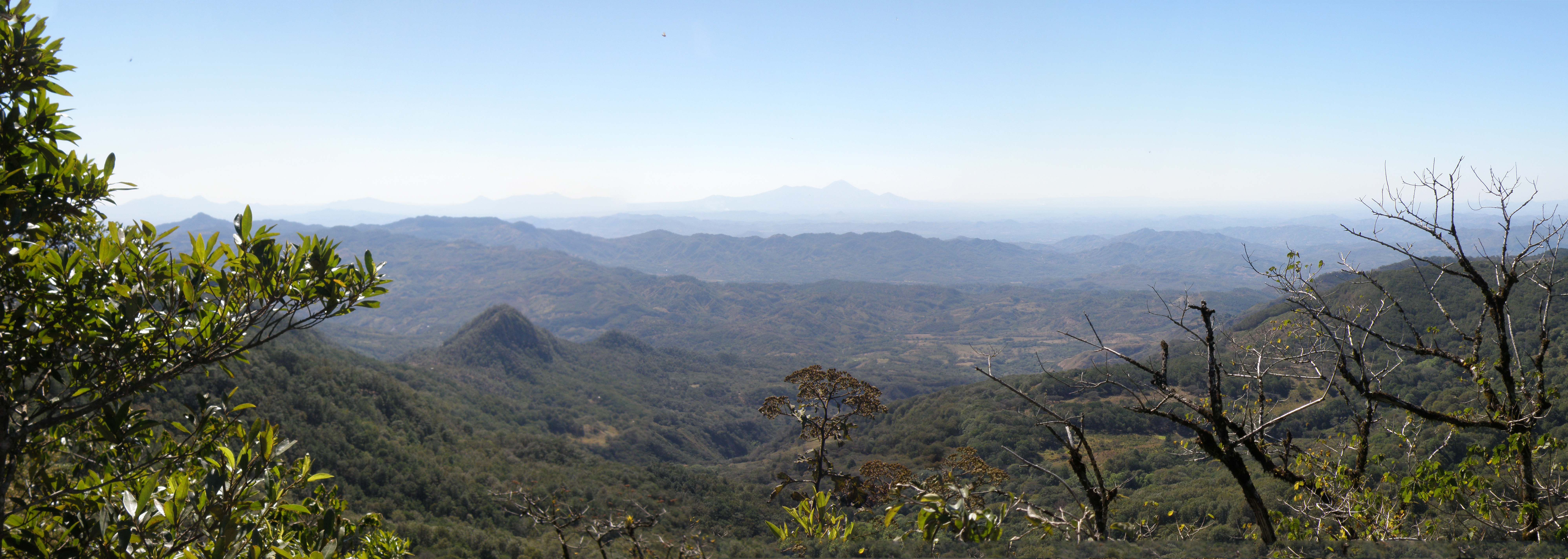 Looking west from Tisey's viewpoint.